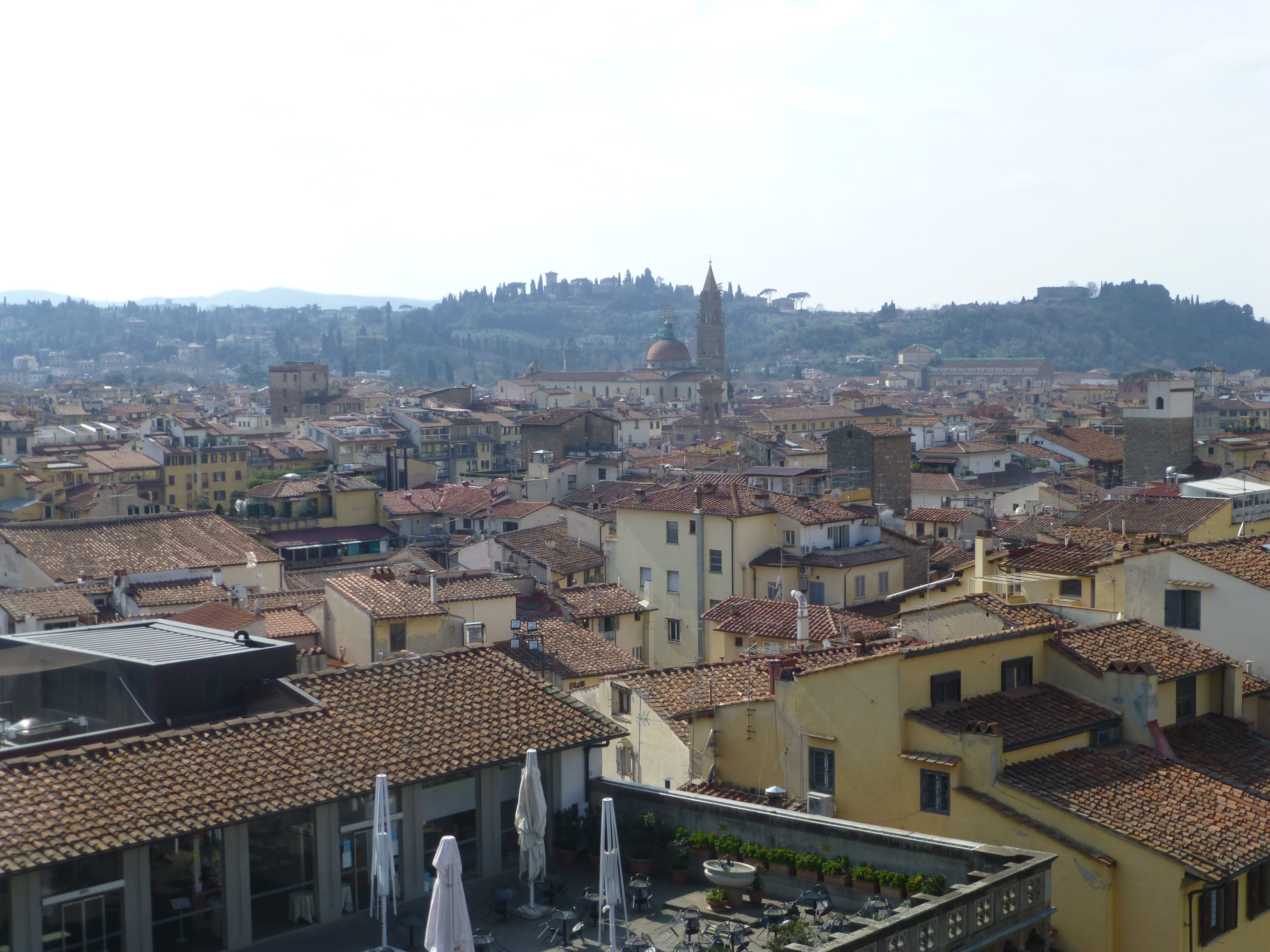 Basilica di Santo Spirito, Oltrarno, Firenze, Italy. Background: Giardino Torrigiani. Seen from Palazzo Vecchio.